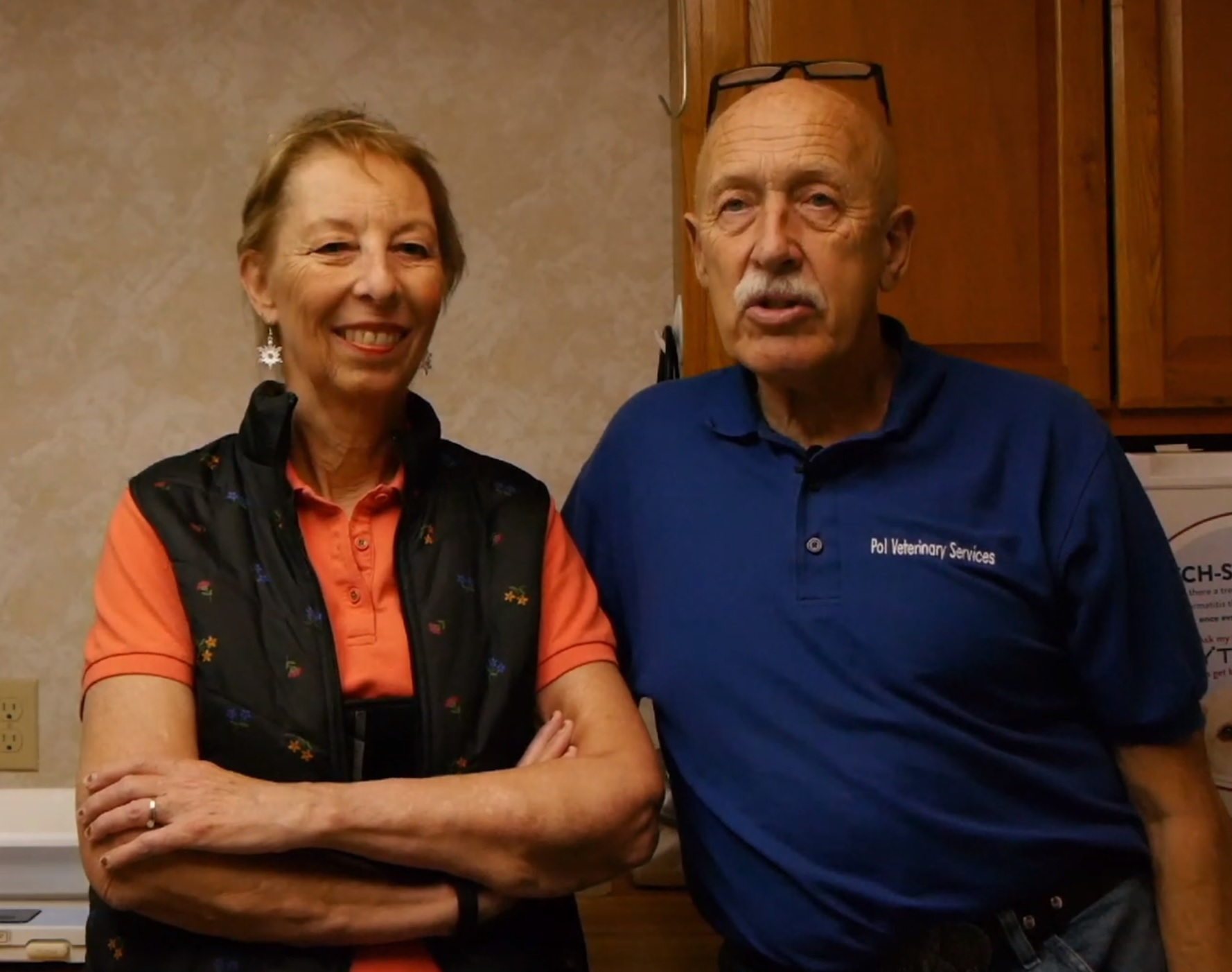 Dr. Pol - @NLinChicago Left to right, Diane and Jan Pol. Veterinarian Dr. Pol ("The Incredible Dr. Pol") talks about how to do business in the United States. Connect with the Consulate General of the Kingdom of the Netherlands in Chicago to learn more. Follow @NLinChicago on Twitter, or visit